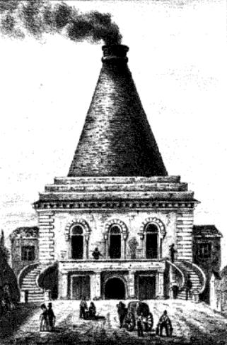 The 2nd glass industry Mitchell at Bordeaux, Les Chartrons, circa 1837